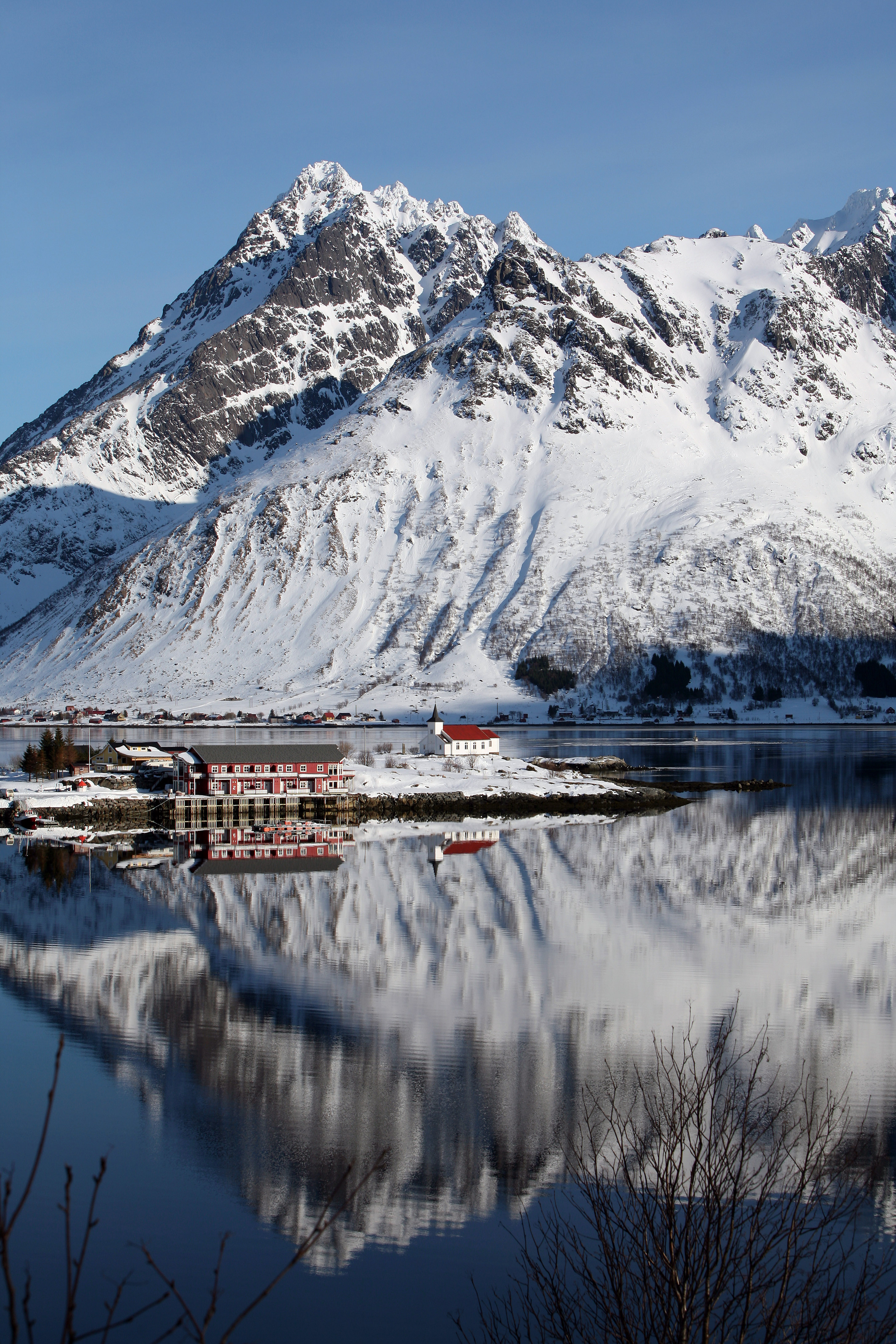 Sildpollneset (peninsula) and Higravtindan (1146m), Vågan, Lofoten, Norway.